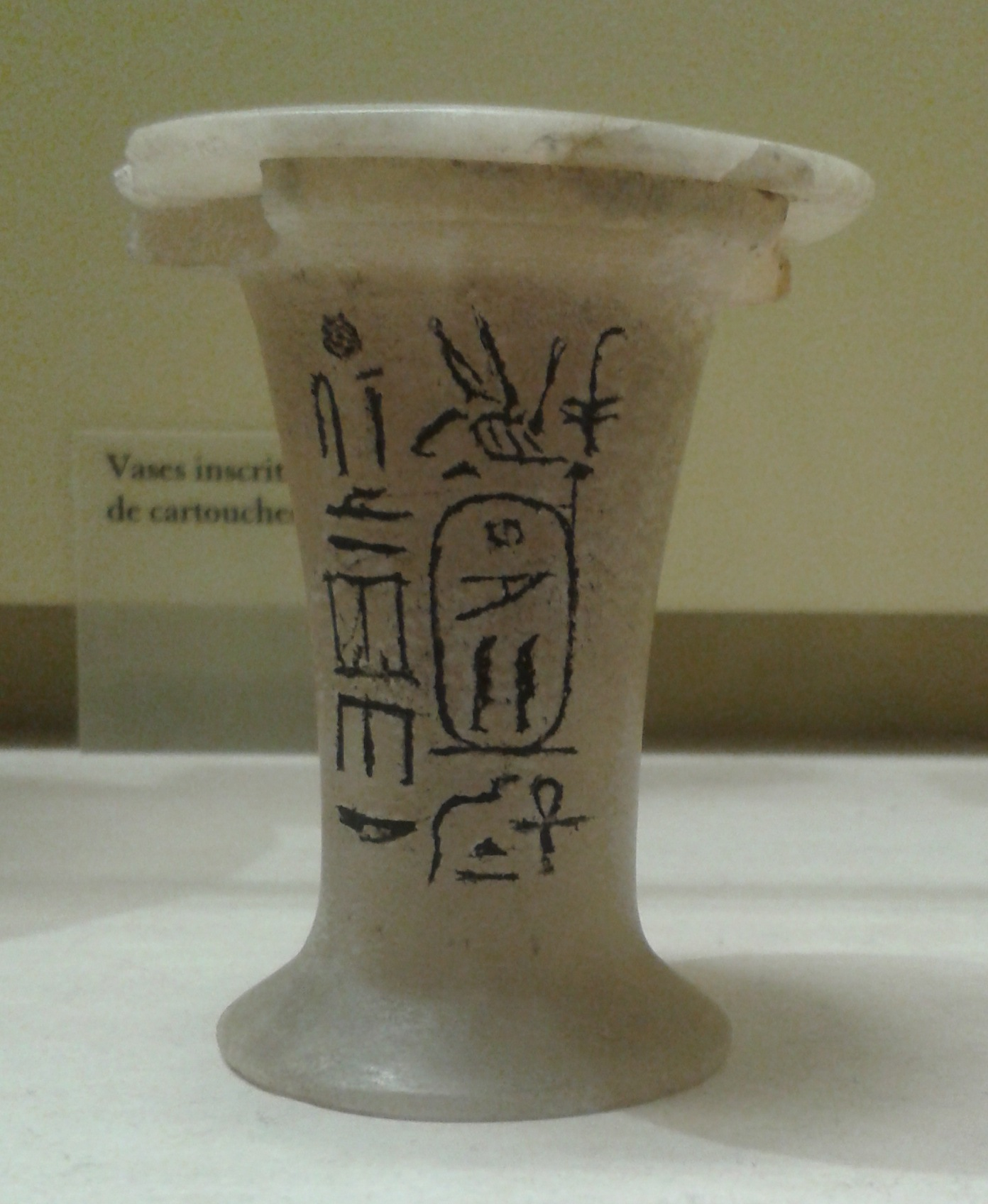 Ointment vase celebrating Pepi I first Sed festival. The inscription reads : The king of Upper and Lower Egypt Meryre, mey he be given life for ever. The first occasion of the Sed festival. Musee du Louvre.